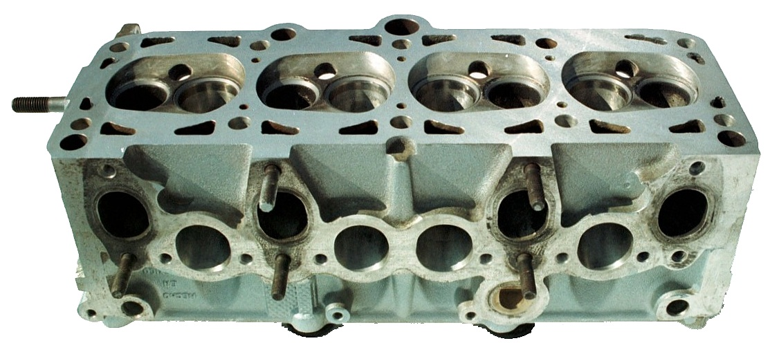 Cylinder head of a 1988 Volkswagen 1.8 liter 4-cylinder 8-valves engine, engine type RP